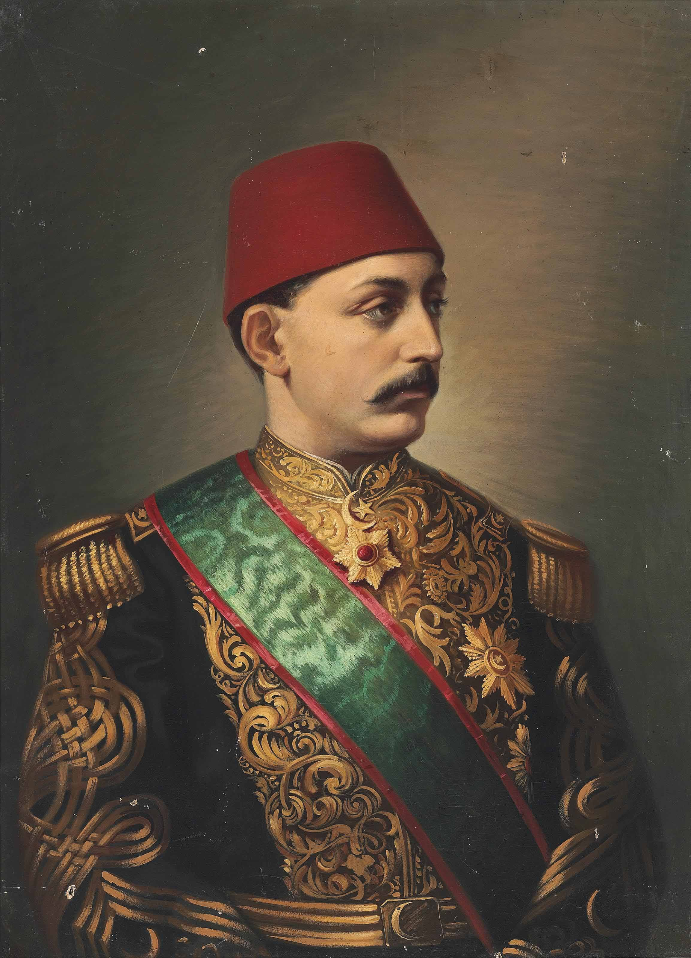 A portrait of young Murad V, Ottoman Turkey ,Second Half 19th Century